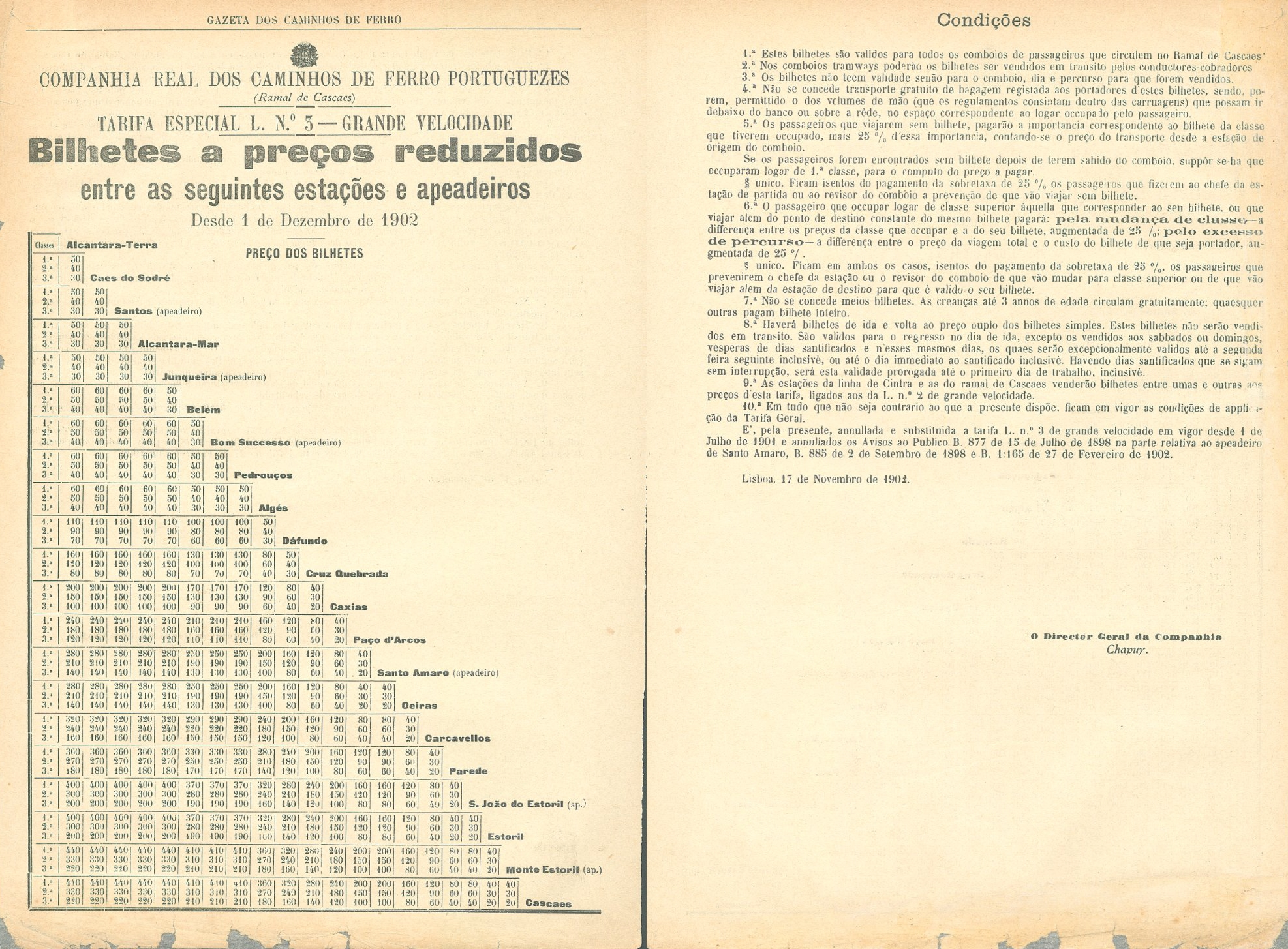 Advertisement of the Companhia Real dos Caminhos de Ferro Portugueses (Royal Company of the Portuguese Railways), showing the special tariff n.º 3, for tickets at reduced prices on the Linha de Cascais (Cascais Railway), and on the section of the Linha de Cintura (Cintura Railway) until the Alcântara - Terra station. This image was published on the Gazeta dos Caminhos de Ferro magazine no. 359, of the 1st December 1902, and scanned by the Hemeroteca Municipal de Lisboa.